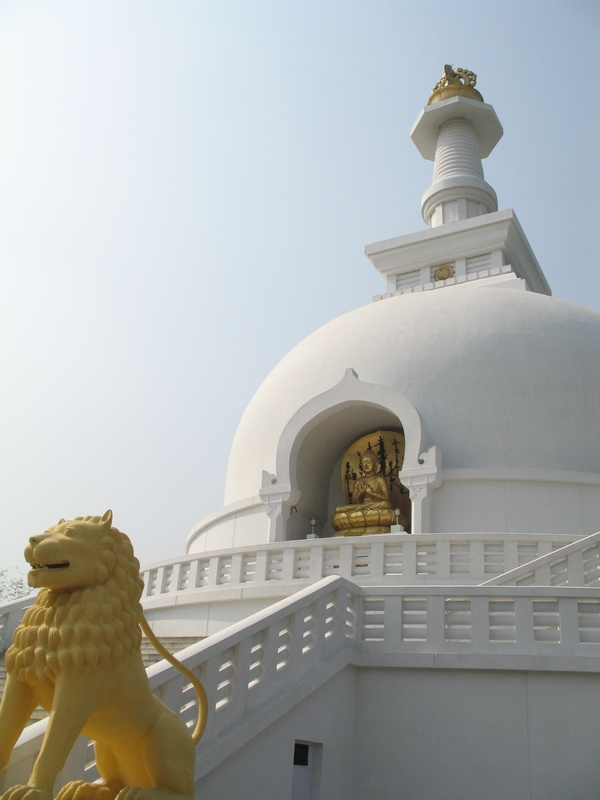 Shanti Stupa in Rajgir, Bihar, India.